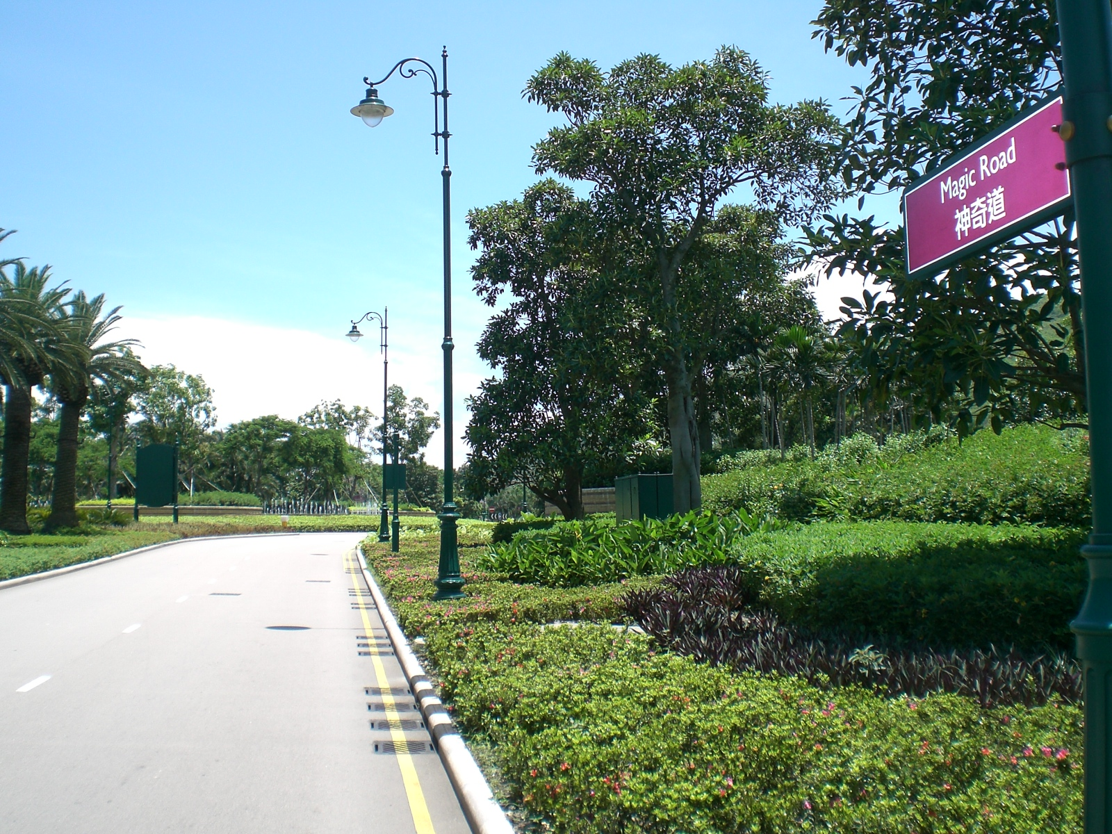 香港迪士尼樂園度假區 June 16th, 2007 夏天 神奇道